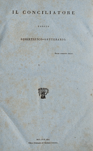 first page of risorgimental newspaper Il Conciliatore 1818